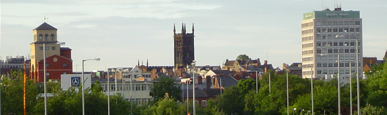 View of Wolverhampton showing the three main buildings on the city skyline